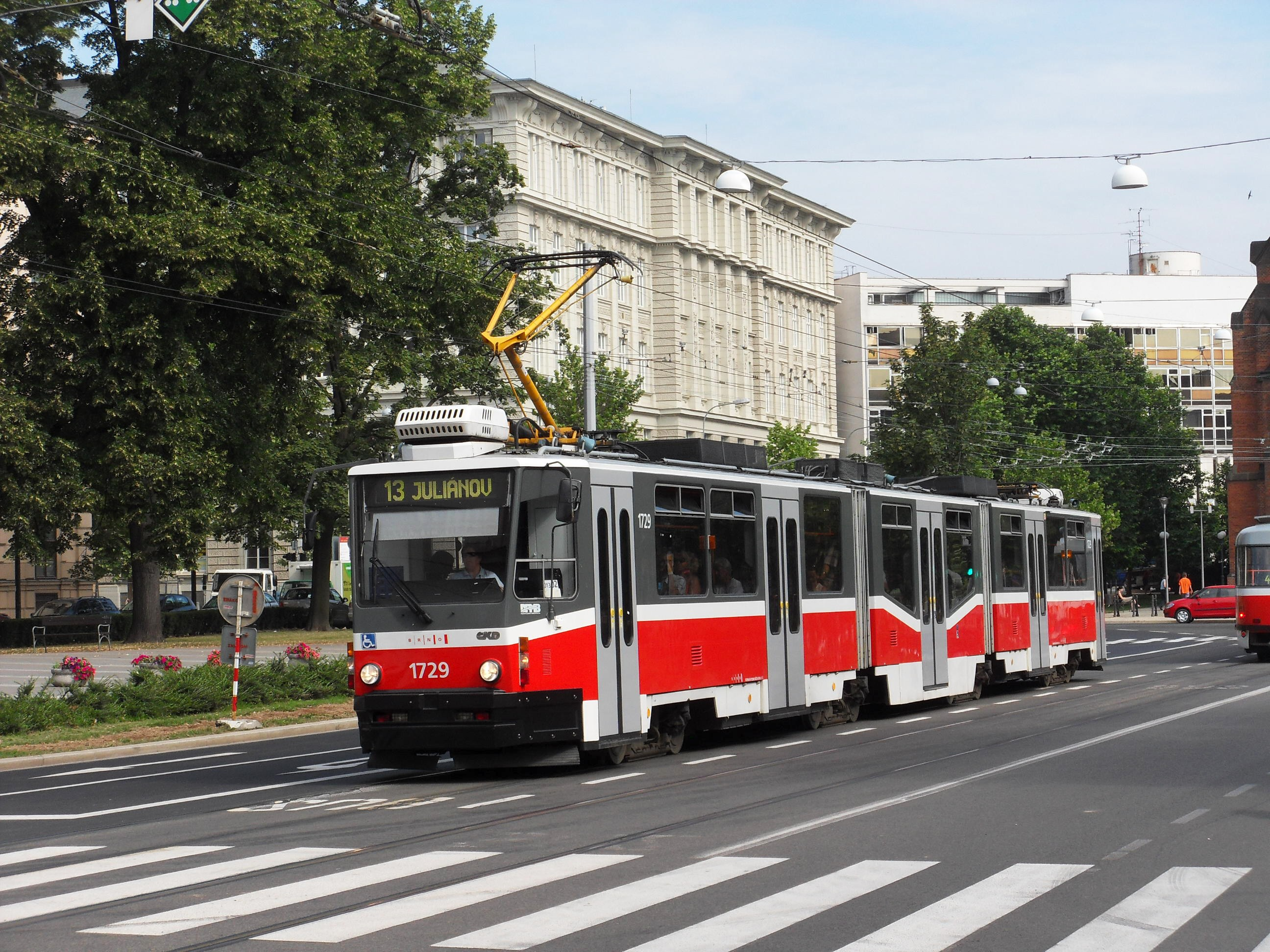 Tatra KT8D5N tram No. 1729 of Dopravní podnik města Brna, Brno, Czech Republic